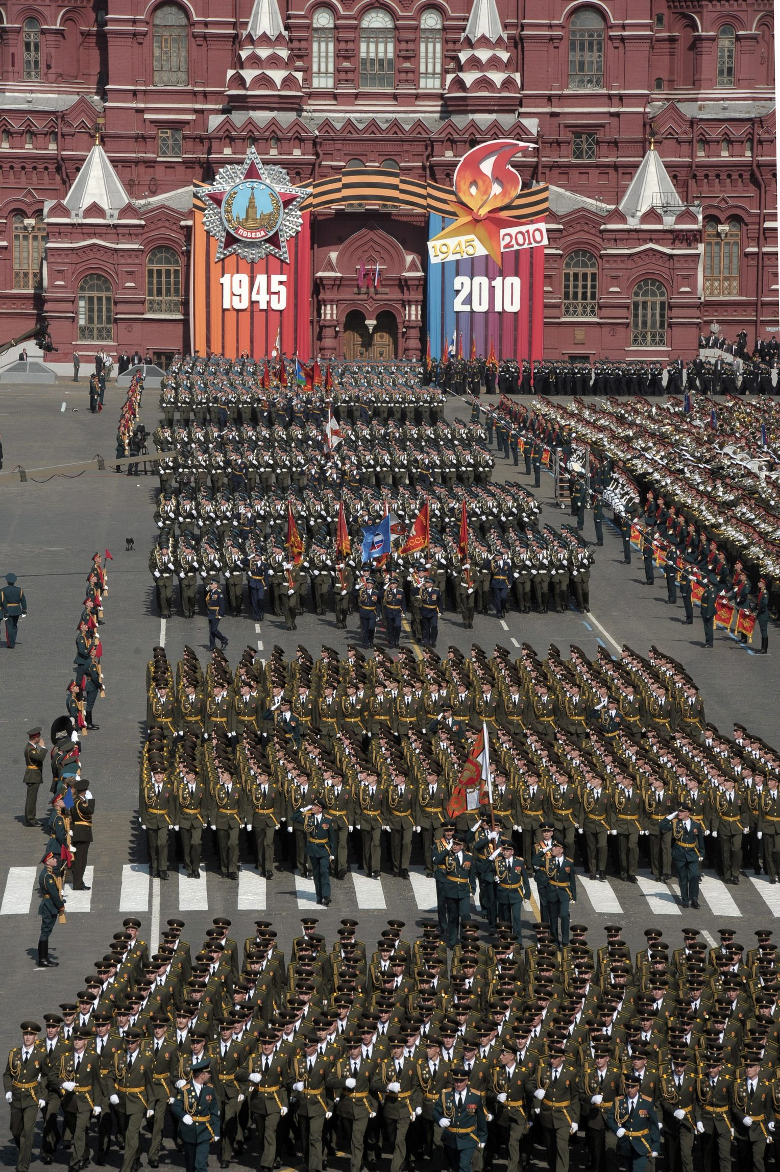 Military parade in Moscow dedicated to the 65th anniversary of the victory in the "Great Patriotic War", i.e. the east European theatre during World War II.